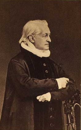 Henrik Nicolai Clausen (1793-1877), Danish theologian and politician, MP